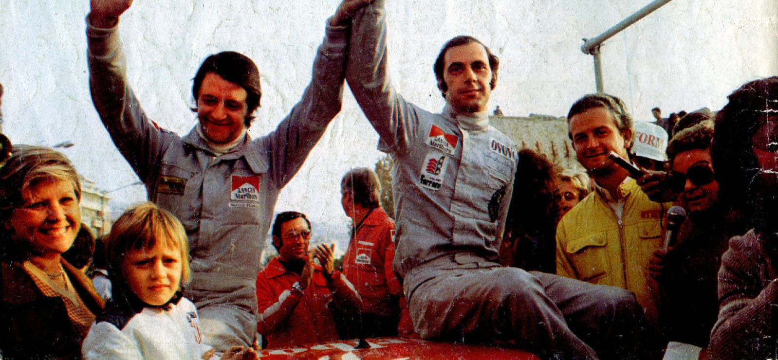 From left to right: co-driver Mario Mannucci and rally driver Sandro Munari, sitting on their Lancia Stratos HF (Group 4) sponsored Marlboro, celebrates their victory at the 1974 Rallye Sanremo.